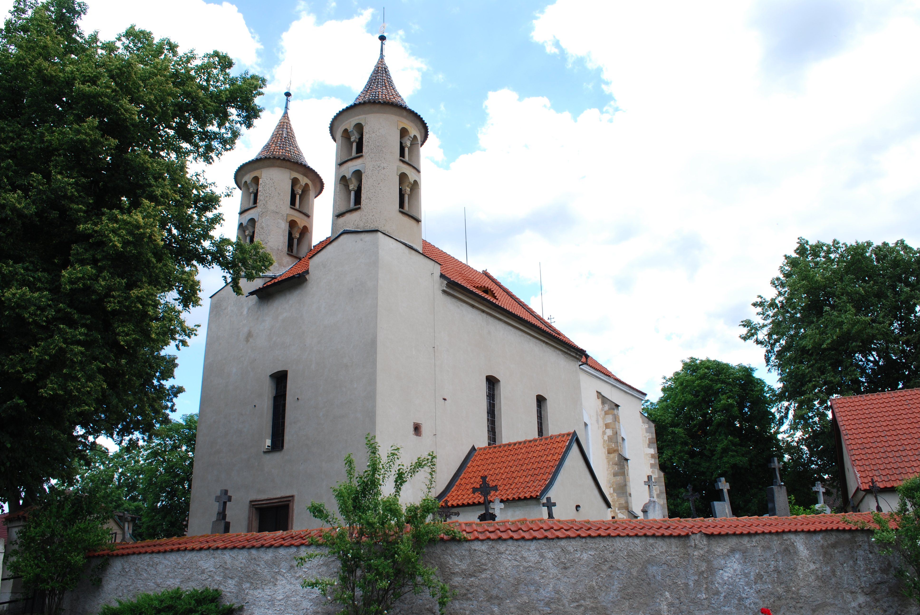 Baroque church St. Bart's in Kondrac.